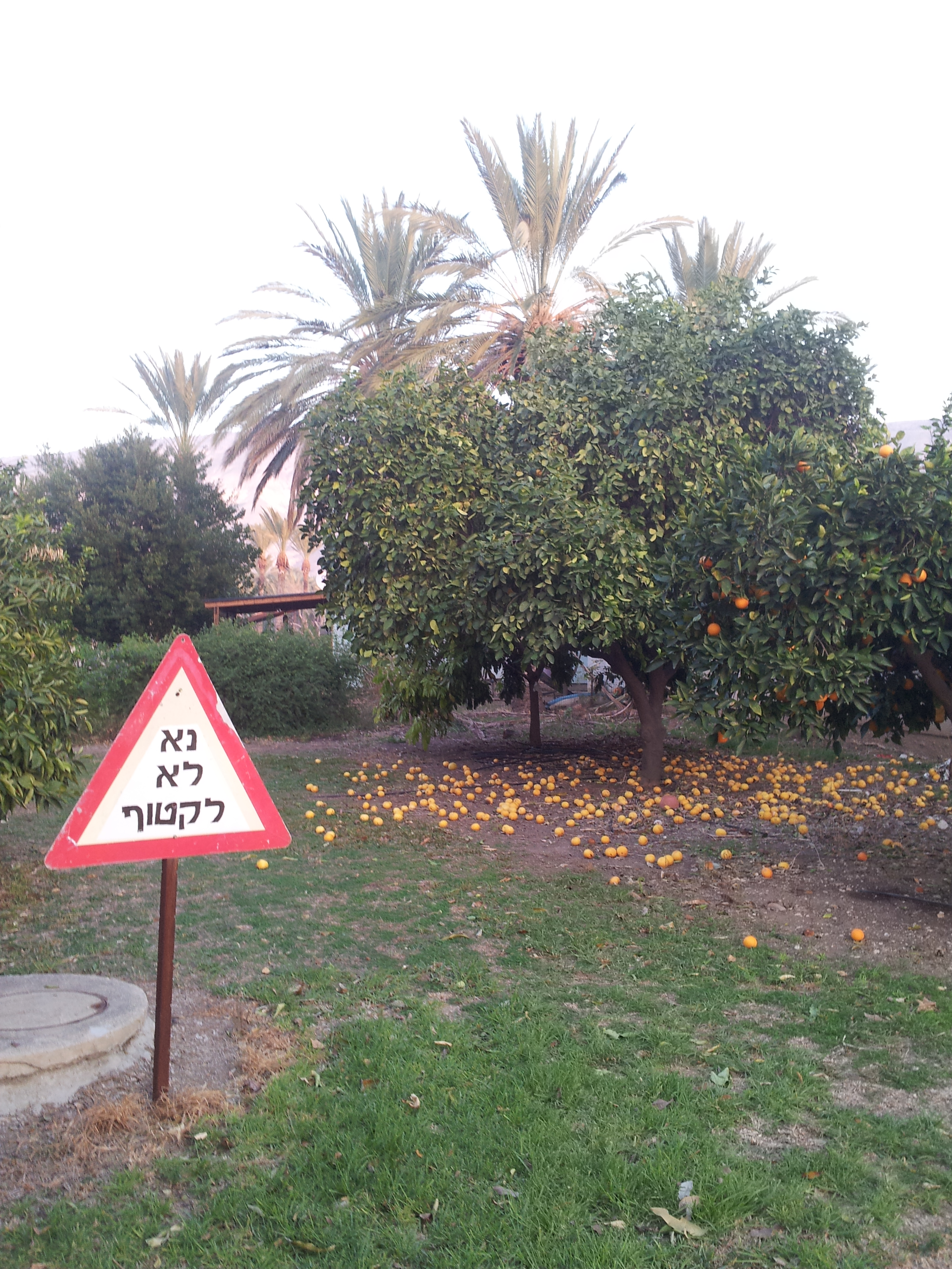 Please do not pick